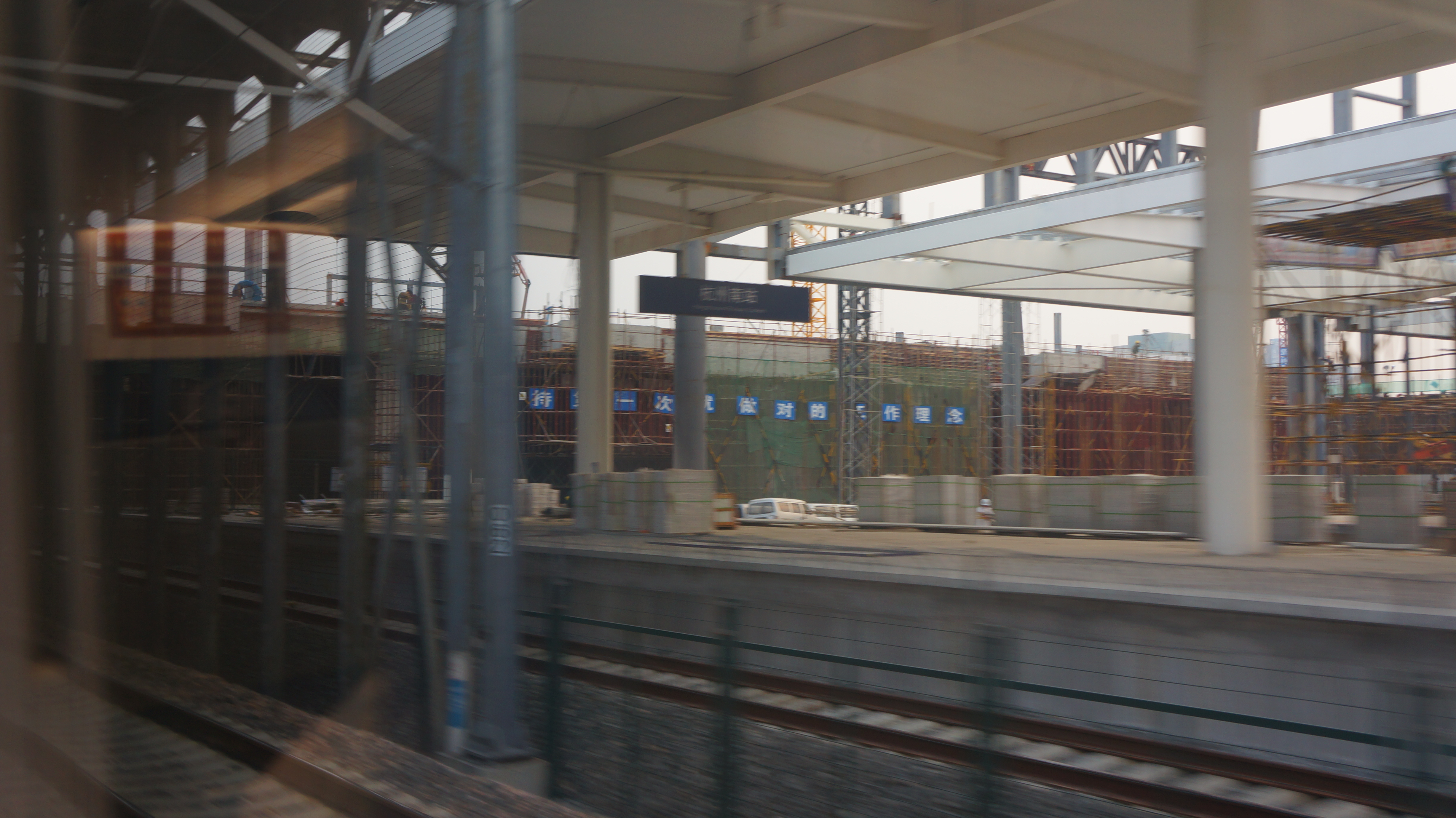 Platforms of Hangzhounan Railway Station under construction